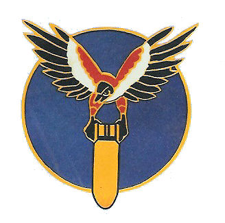 Emblem of the 44th Bomb Squadron (USAAF)